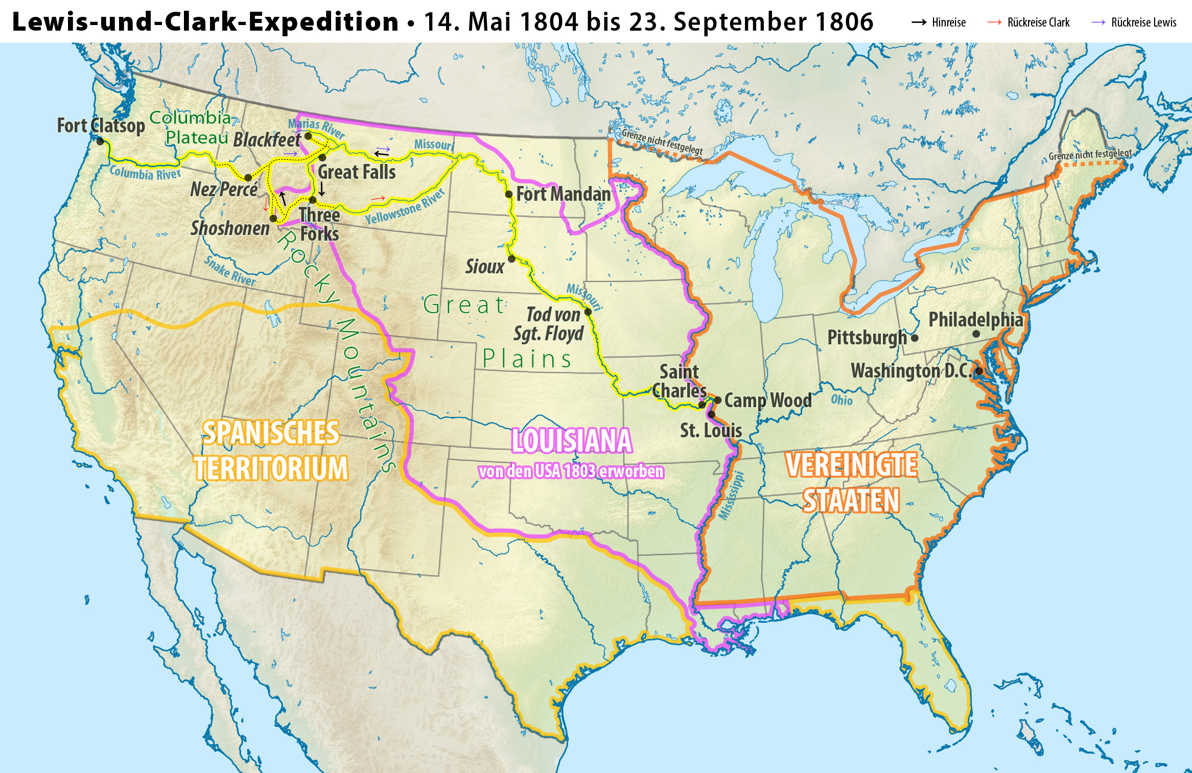 Route of the Lewis and Clark Expedition